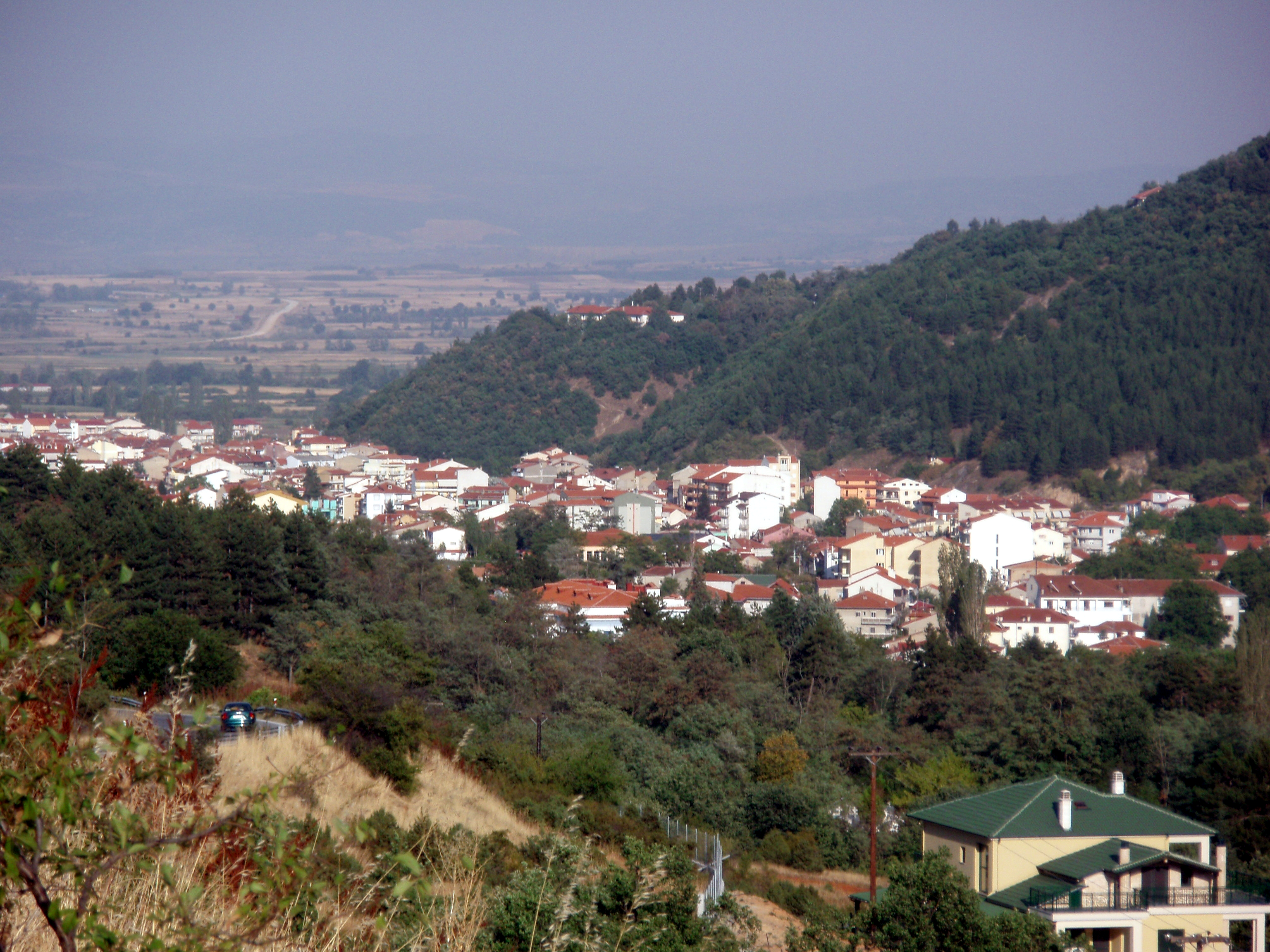 View on the city of Florina, Greece. Photo was shot from National Road 2, section Florina-Vigla near Simos Ioannidis settlement.